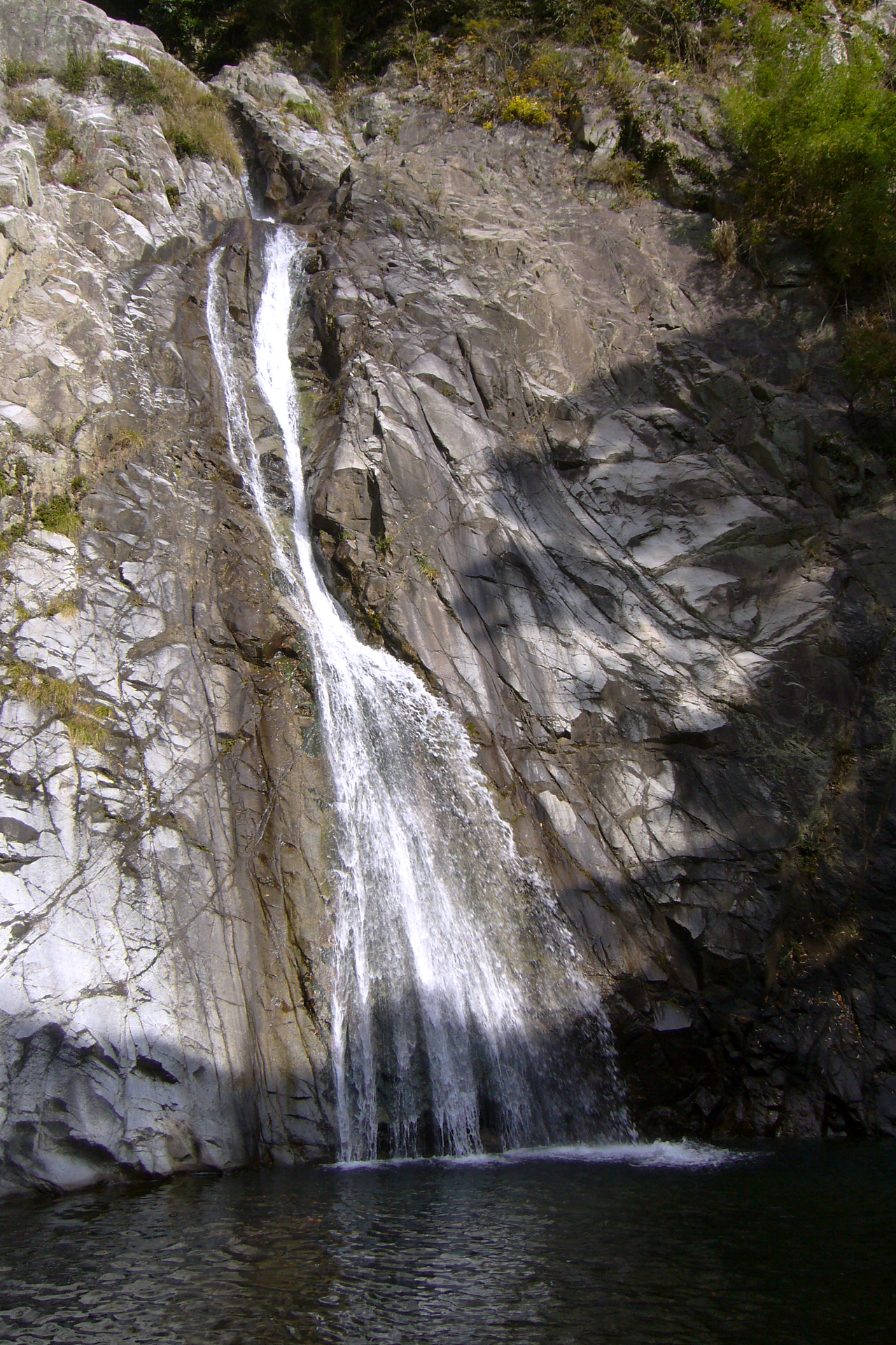 Nunobiki Waterfalls in Kobe, Hyogo prefecture, Japan